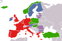 Map of the Western European Union. member countries associate member countries observer countries associate partner countries